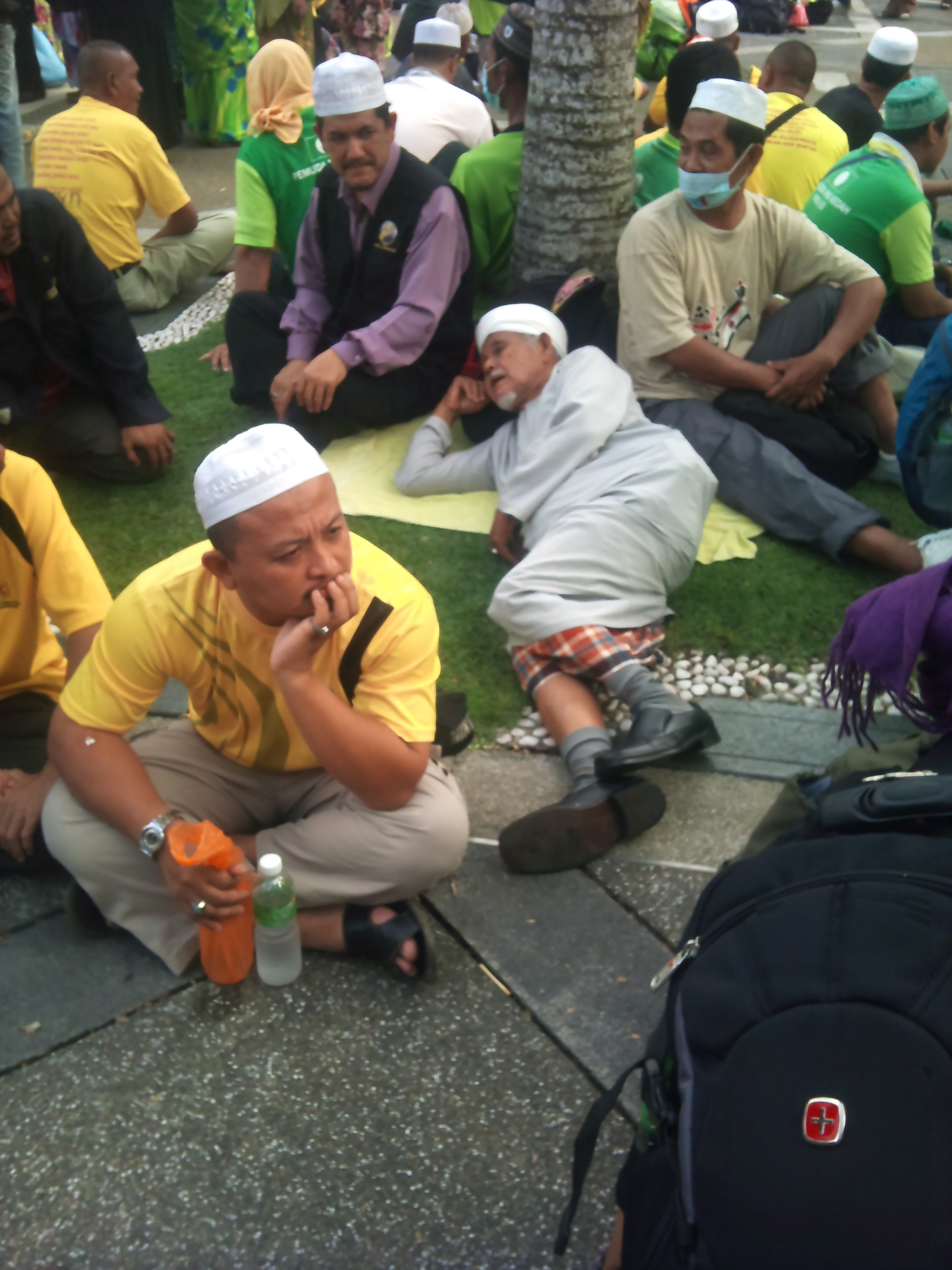 PUR Rally Participant Chillin' Under a Tree